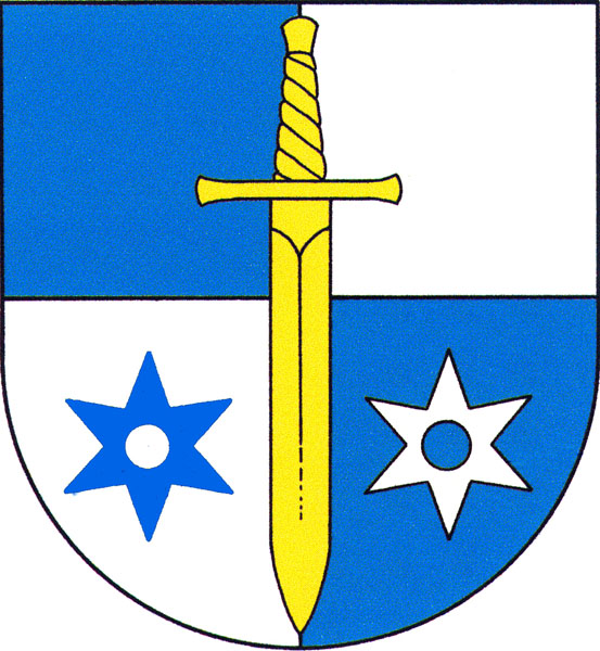 Municipal coat of arms of Líbeznice village, Prague-East District, Czech Republic.